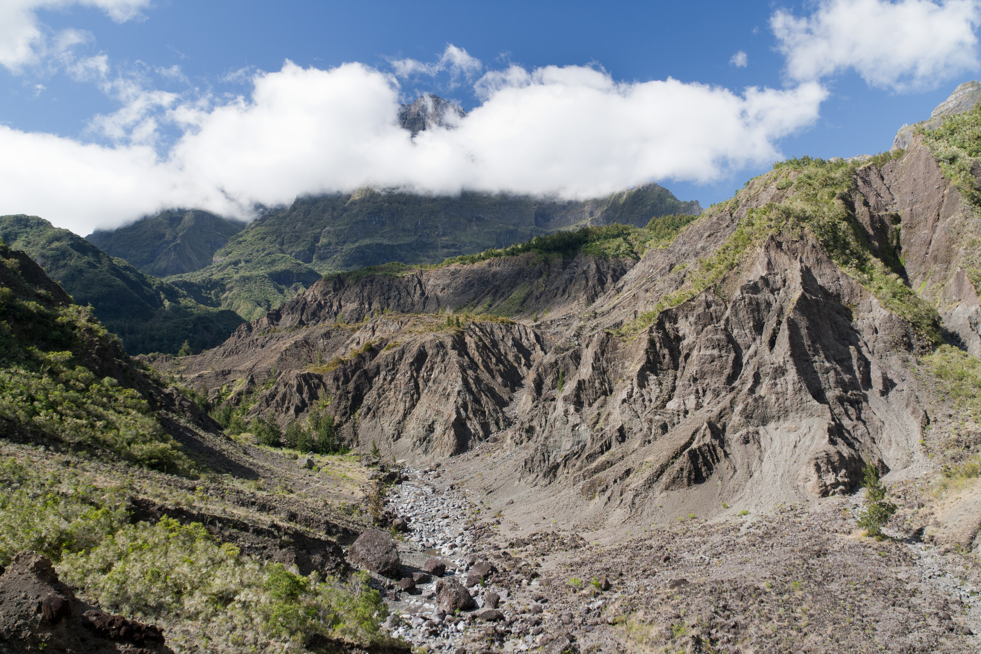 Valley of Riviére des Galet in the Cirque de Mafate (Réunion)